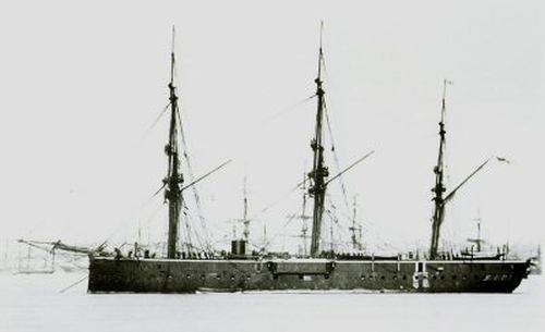 HMS Audacious built at Glasgow by Napier, launched 27 February 1869, later to be renamed the Fisgard in 1904, and the Imperieuse in 1914